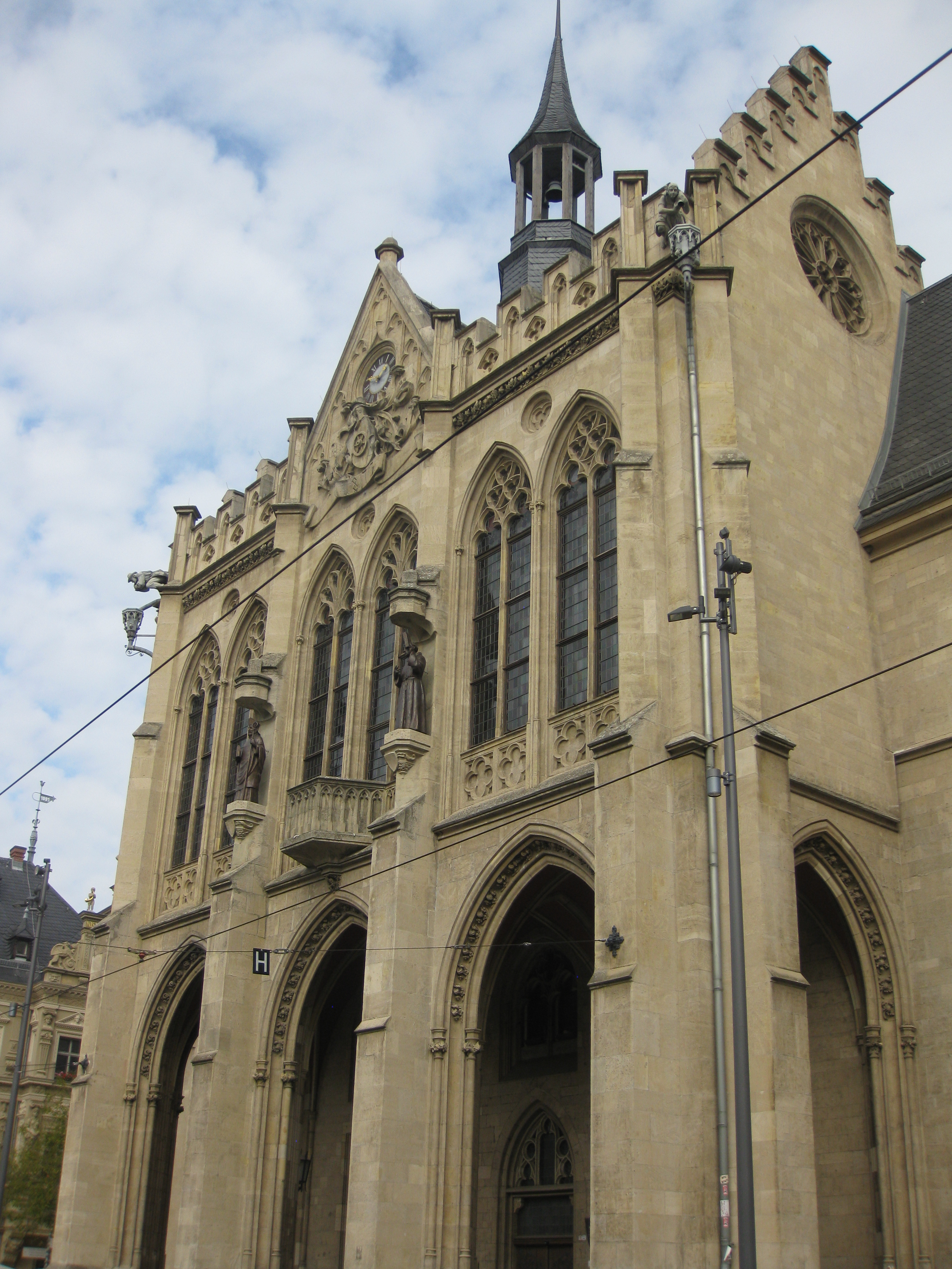 City Hall Erfurt